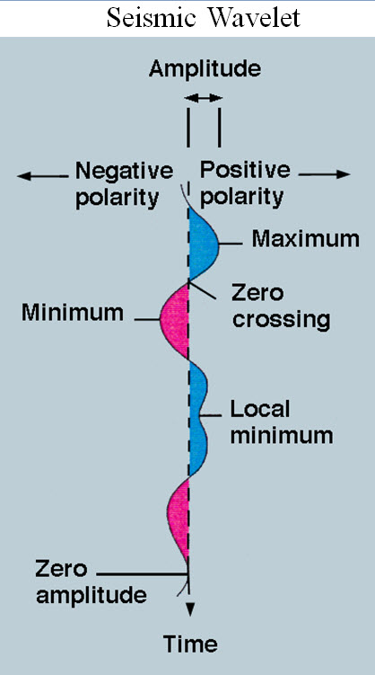 Seismic Wavelet